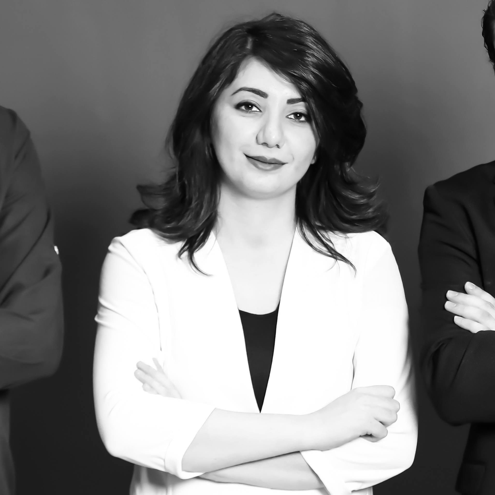 Profile Picture